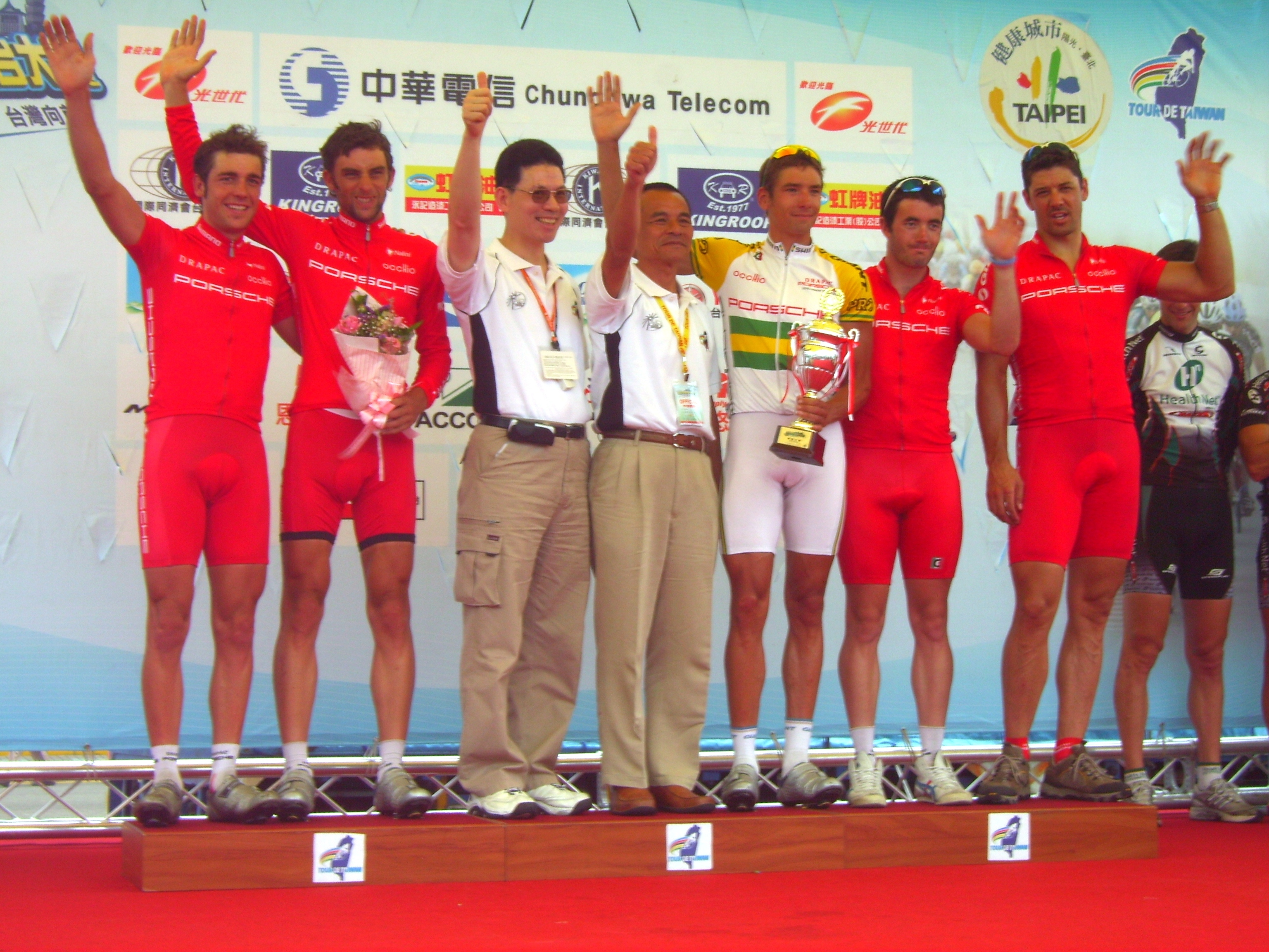 Tour de Taiwan 2007: Drapac Porsche Team won the 2nd place in the team competition of this tour.